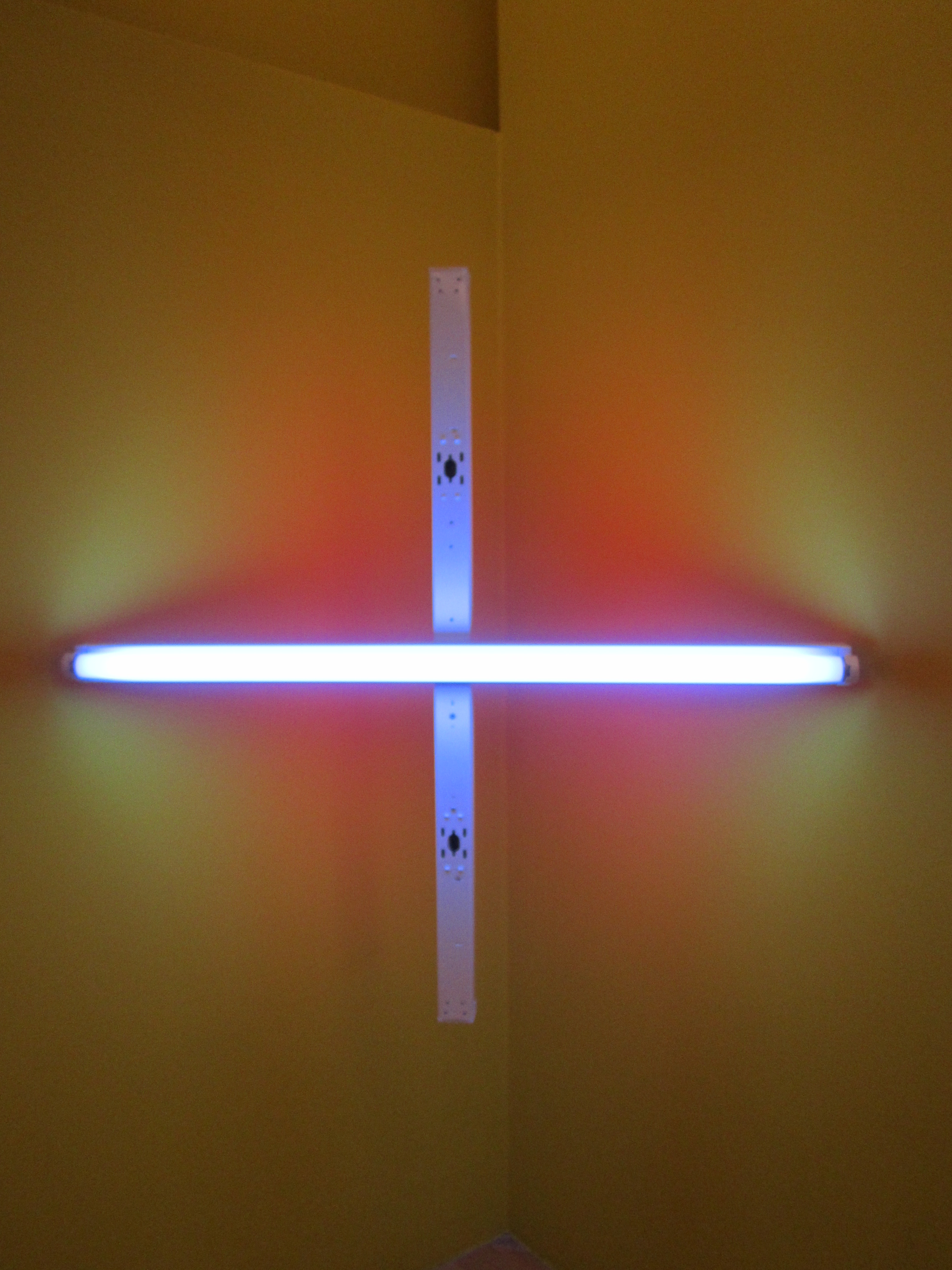 Unititled (Corner Piece) by Dan Flavin, Tate Liverpool, England.